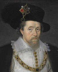 James VI of Scots